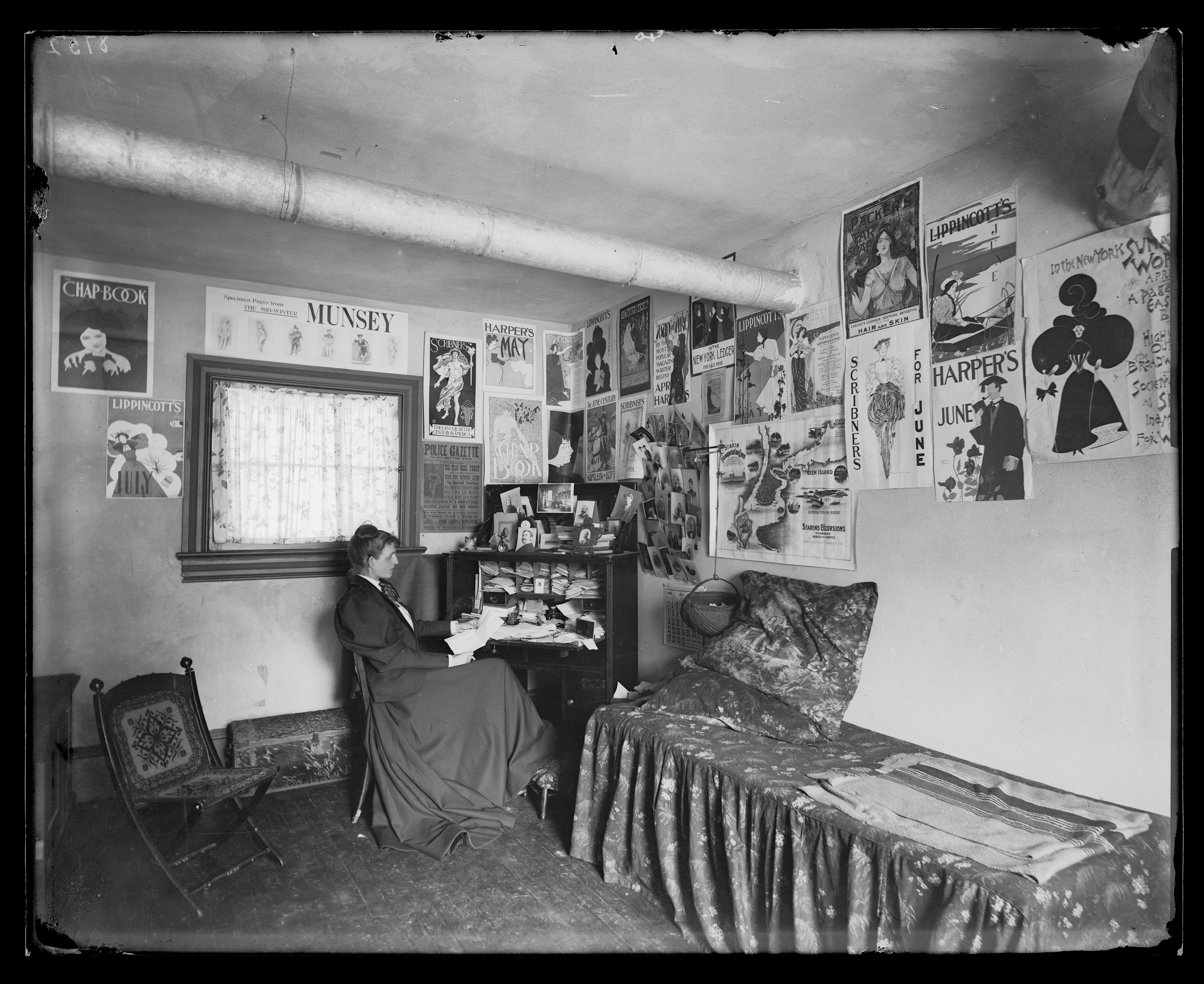 Title: Frances Benjamin Johnston seated at a desk in her studio/office, with adverstising posters on the walls, including the Chap Book, Harper's, and Lippincott's magazines Abstract/medium: 1 photograph : glass negative; plate 24 x 18 cm (8 x 10 format)